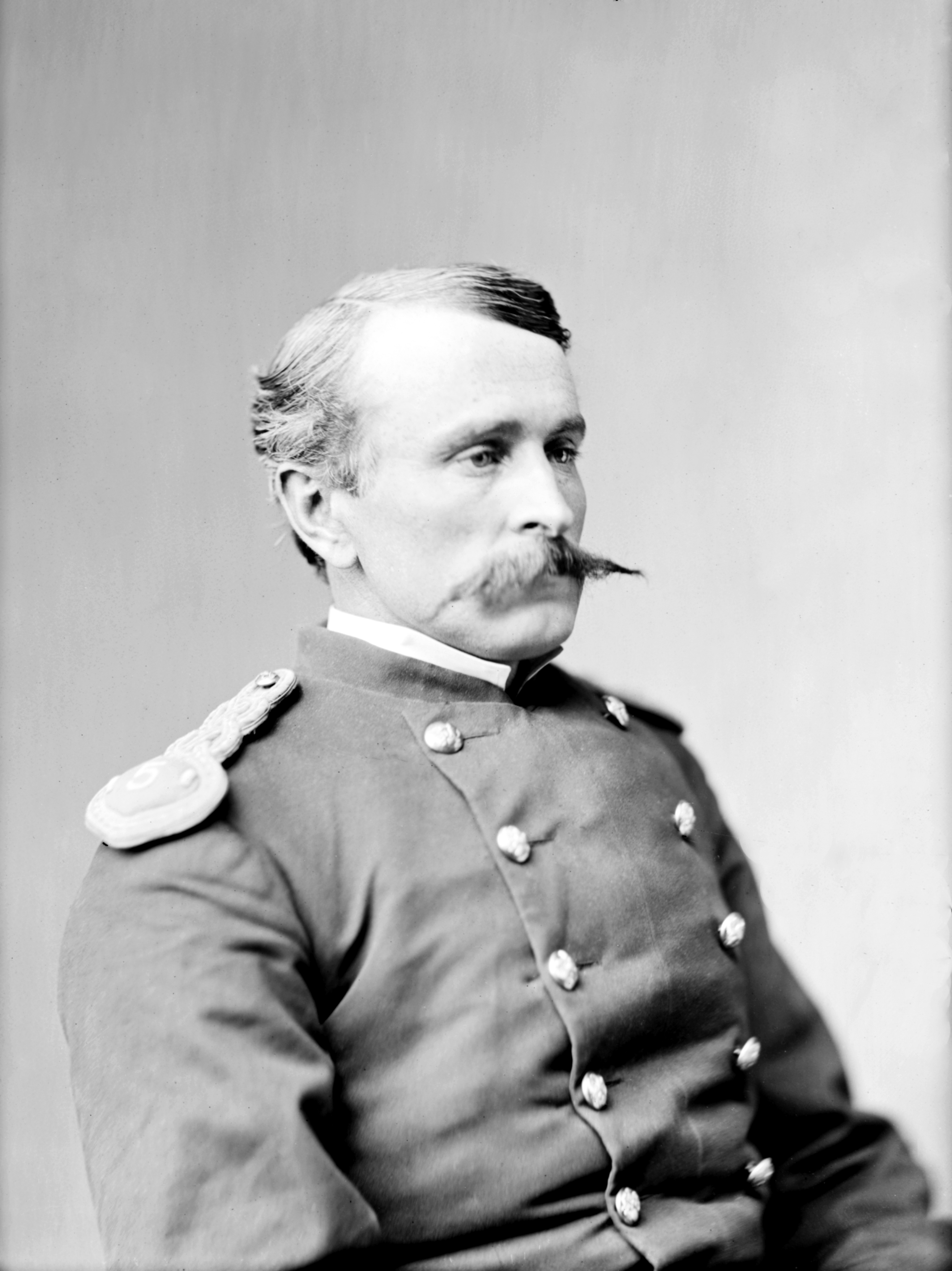 United States Army officer and two-time Medal of Honor recipient Frank D. Baldwin